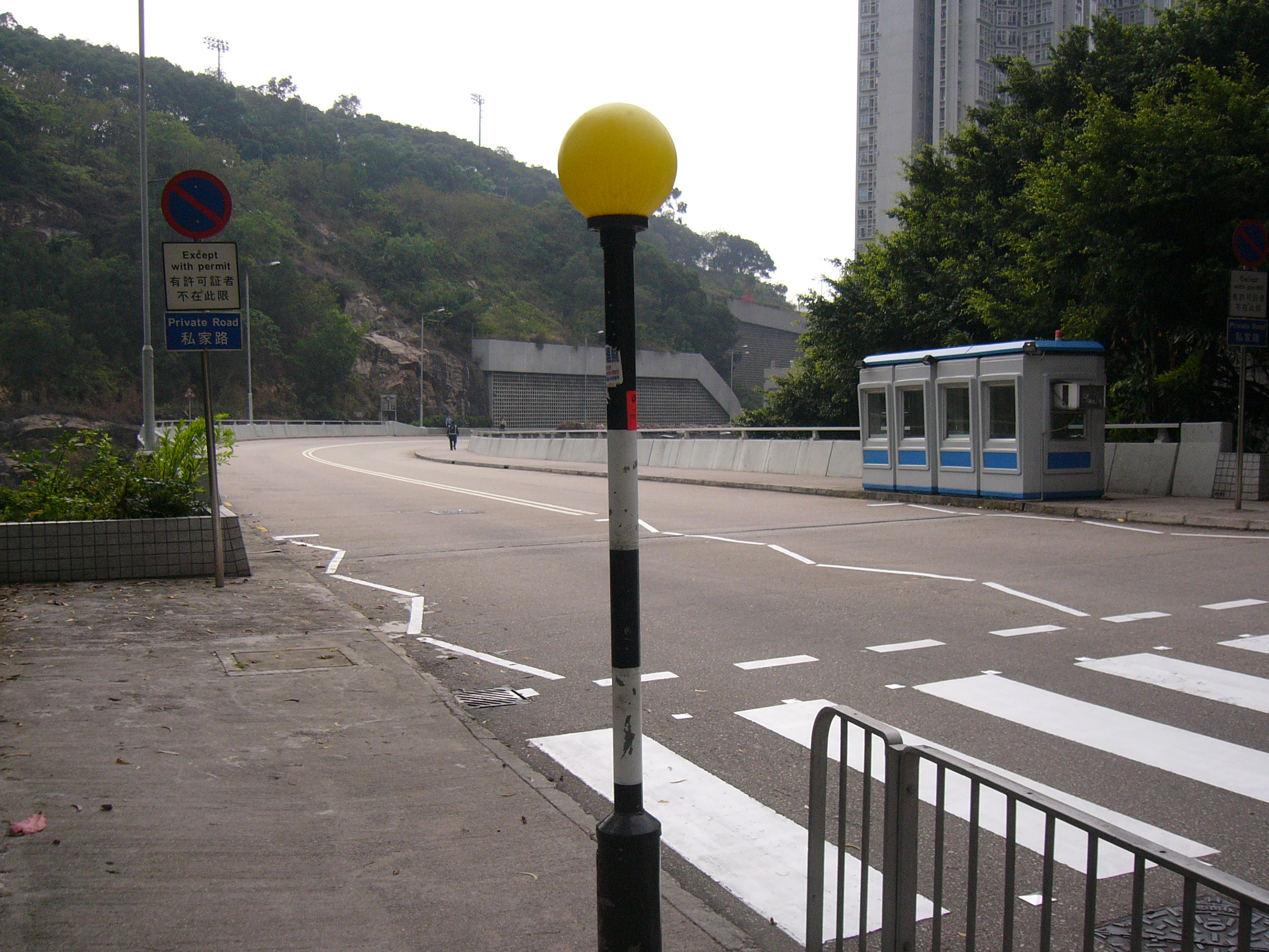 Flyover entrance to Sceneway Garden, Lam Tin, Hong Kong.